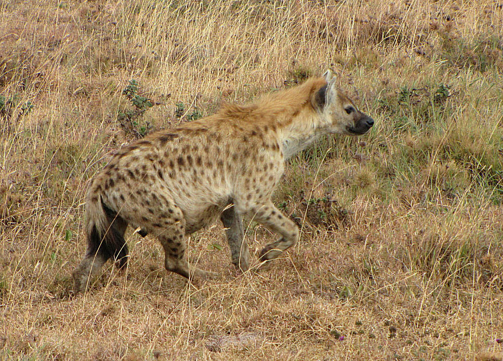 Spotted Hyena (Crocuta crocuta), Ngorongoro Park, Tanzania